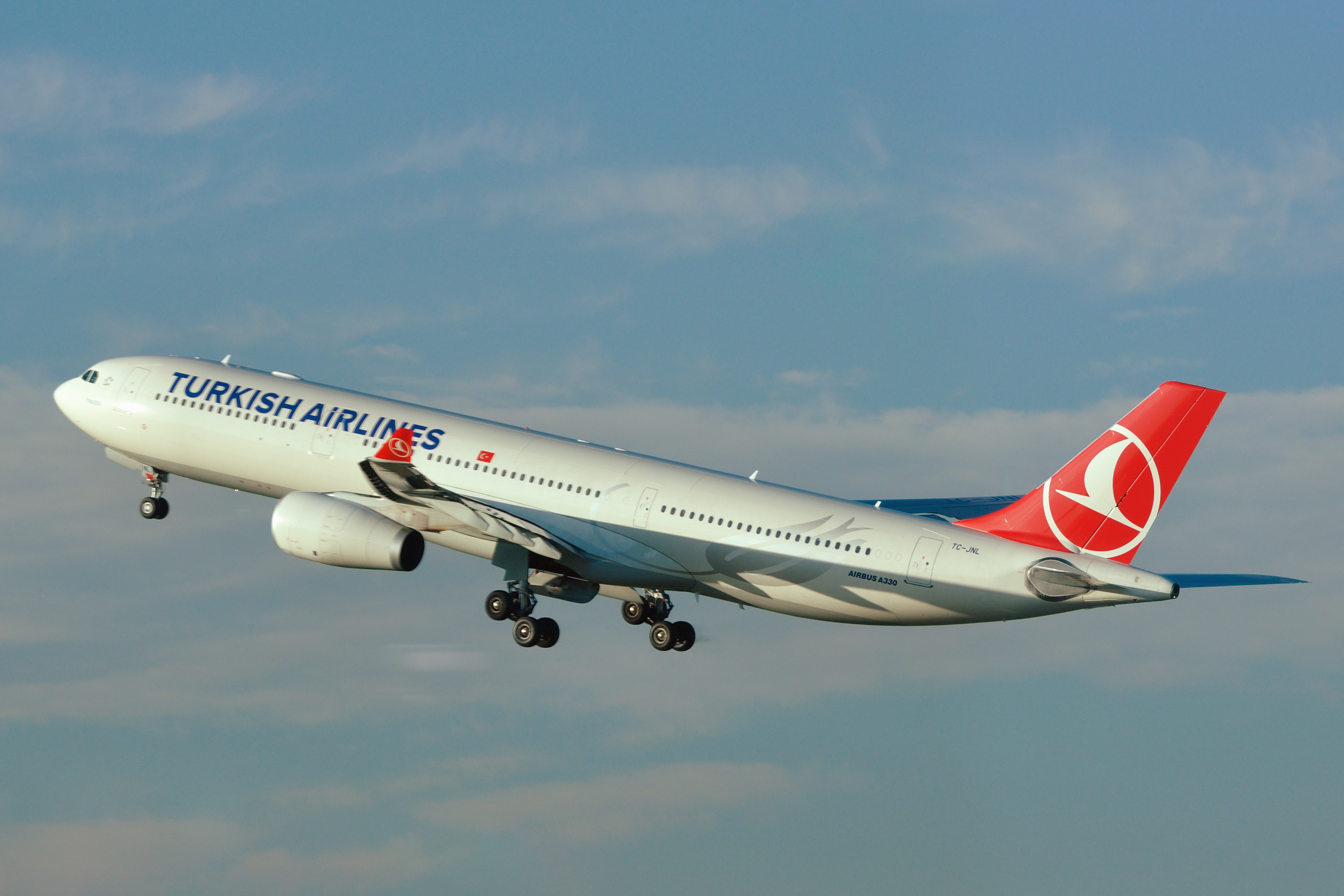 Airbus A330 TC-JNL of Turkish Airlines. Take off at Cape Town Airport. Other photographs in this sequence : File:2011-06-21 16-27-47 South Africa - Crossroads - TC-JNL.jpg